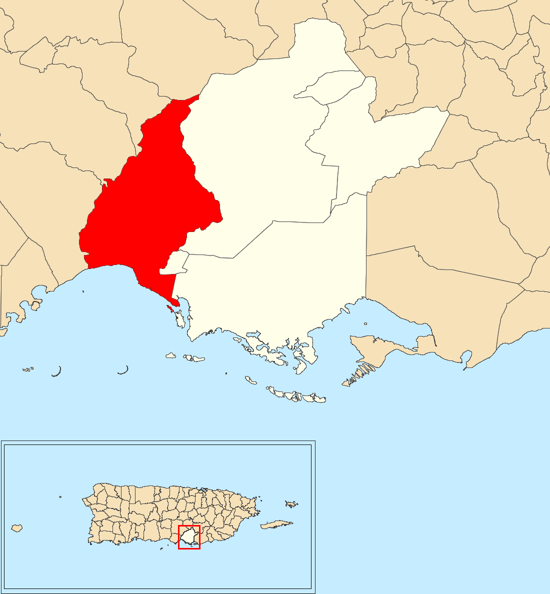 Río Jueyes, Salinas, Puerto Rico locator map